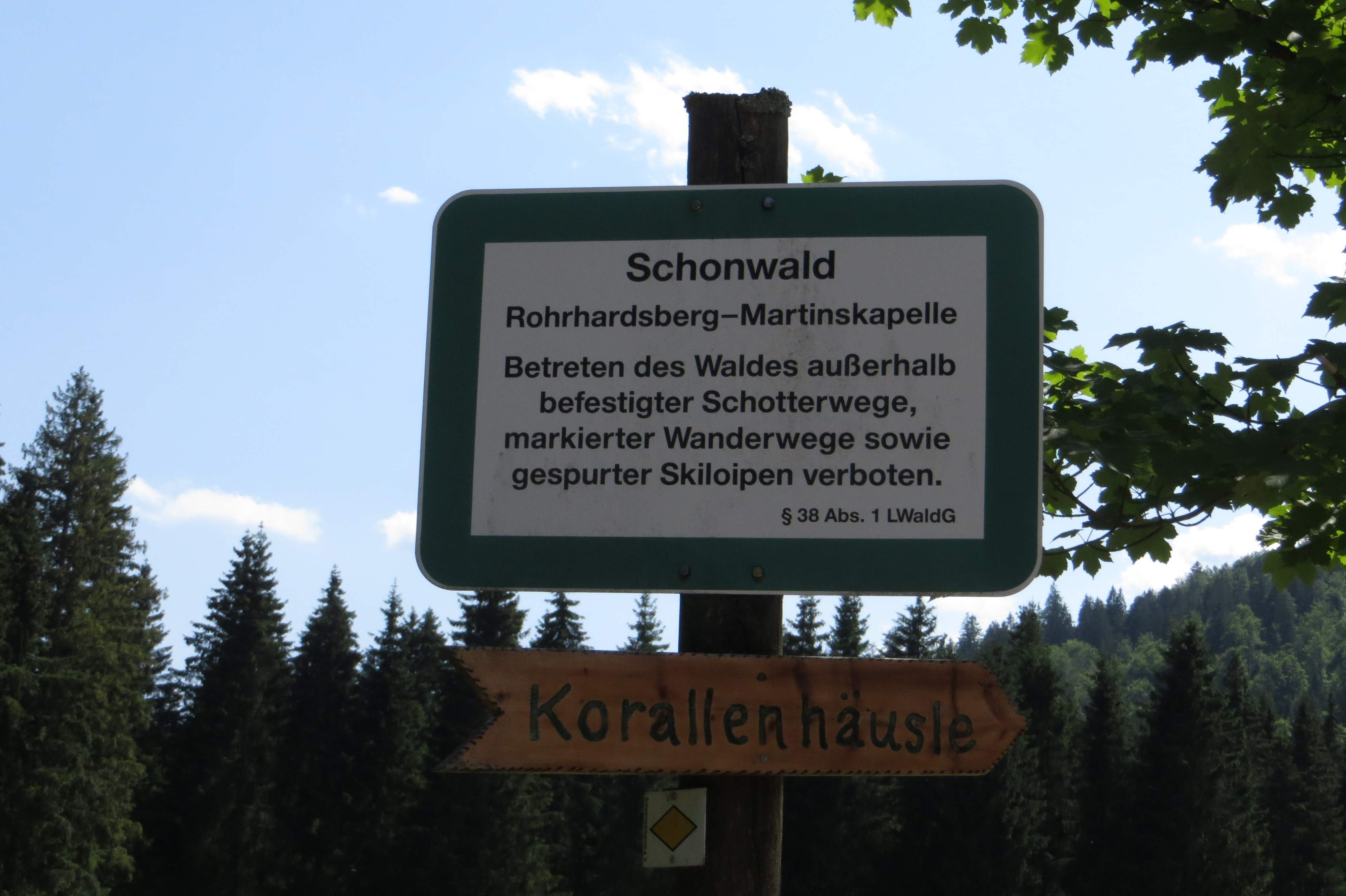 Sign for a Schonwald, a type of protected forest in Baden-Wurttemberg, Germany. Near Schönwald im Schwarzwald.